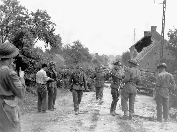 Major David V. Currie (left, with pistol in hand) of The South Alberta Regiment accepting the surrender of German troops at St. Lambert-sur-Dive, France, 19 August 1944. This photo captures the very moment and actions that would lead to Major Currie being awarded the Victoria Cross. Battle Group Commander Major D.V. Currie at left supervises the round up of German prisoners. Reporting to him is trooper R.J. Lowe of "C" Squadron.